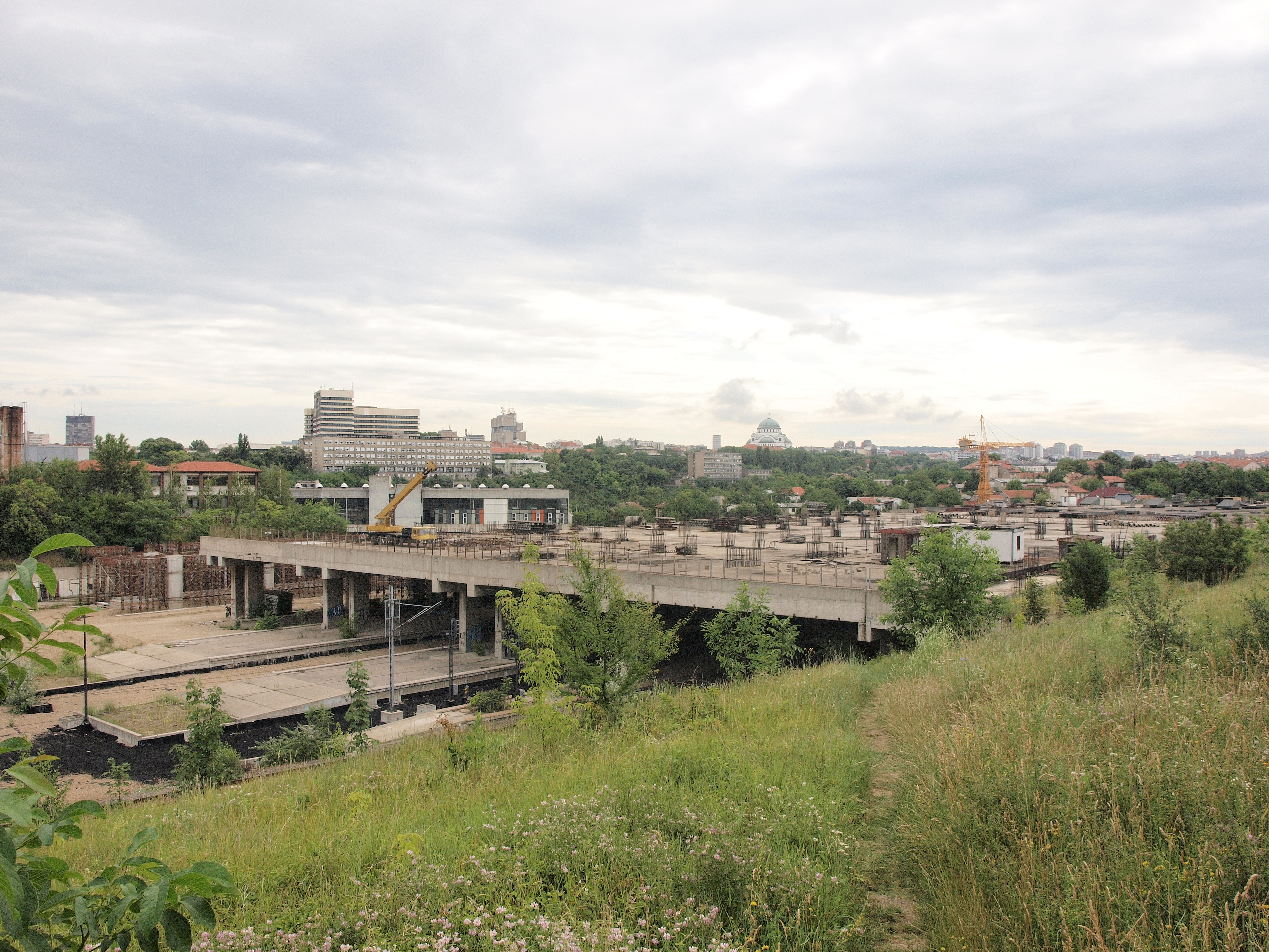 Prokop overview, Belgrade Serbia